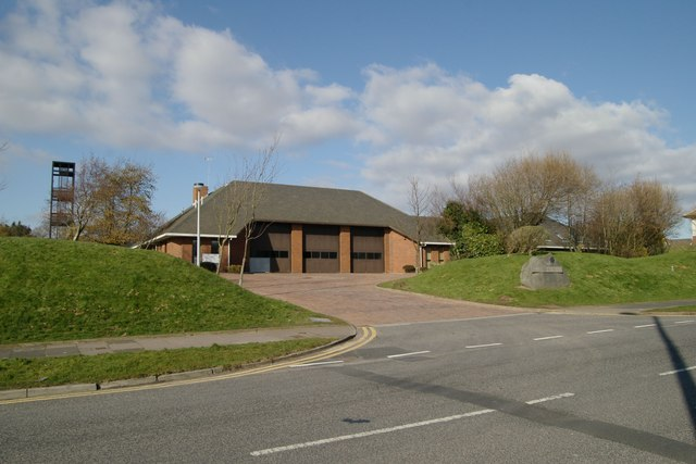 Blackpool Fire Station. Blackpool Fire Station, Forest Gate, Blackpool, Lancashire.